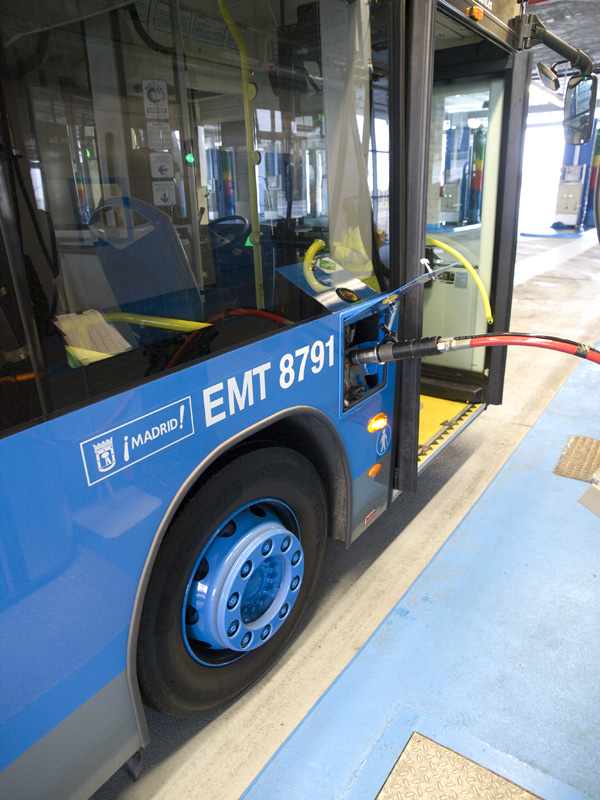 EMT Madrid Bus Depot of Sanchinarro